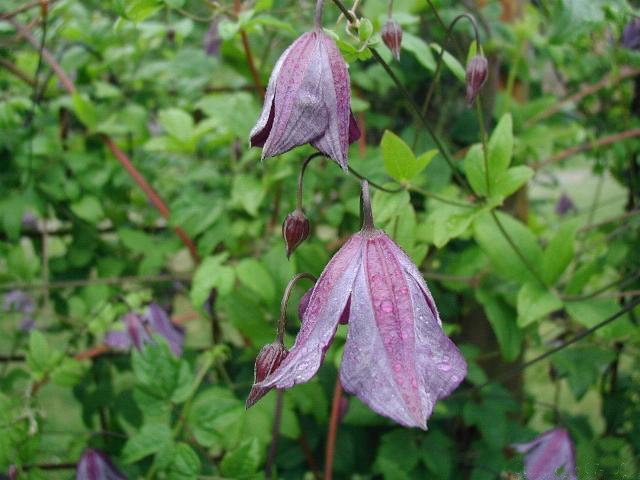 Clematis viticella: Flowers